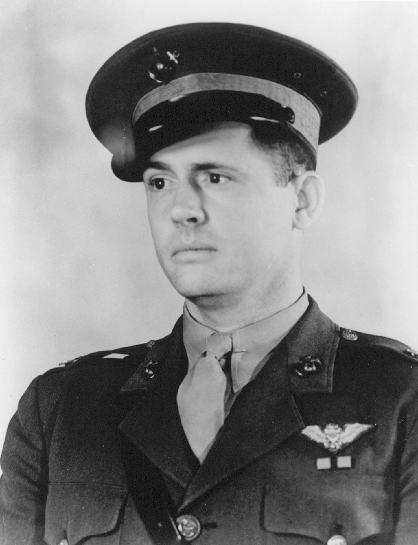 Major Henry T. Elrod, USMC, Medal of Honor recipient